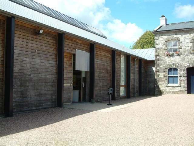 The National Trust's Carriage Museum, Arlington Court The modern museum building is an interesting contrast to the adjacent traditional buildings of the old stable yard.